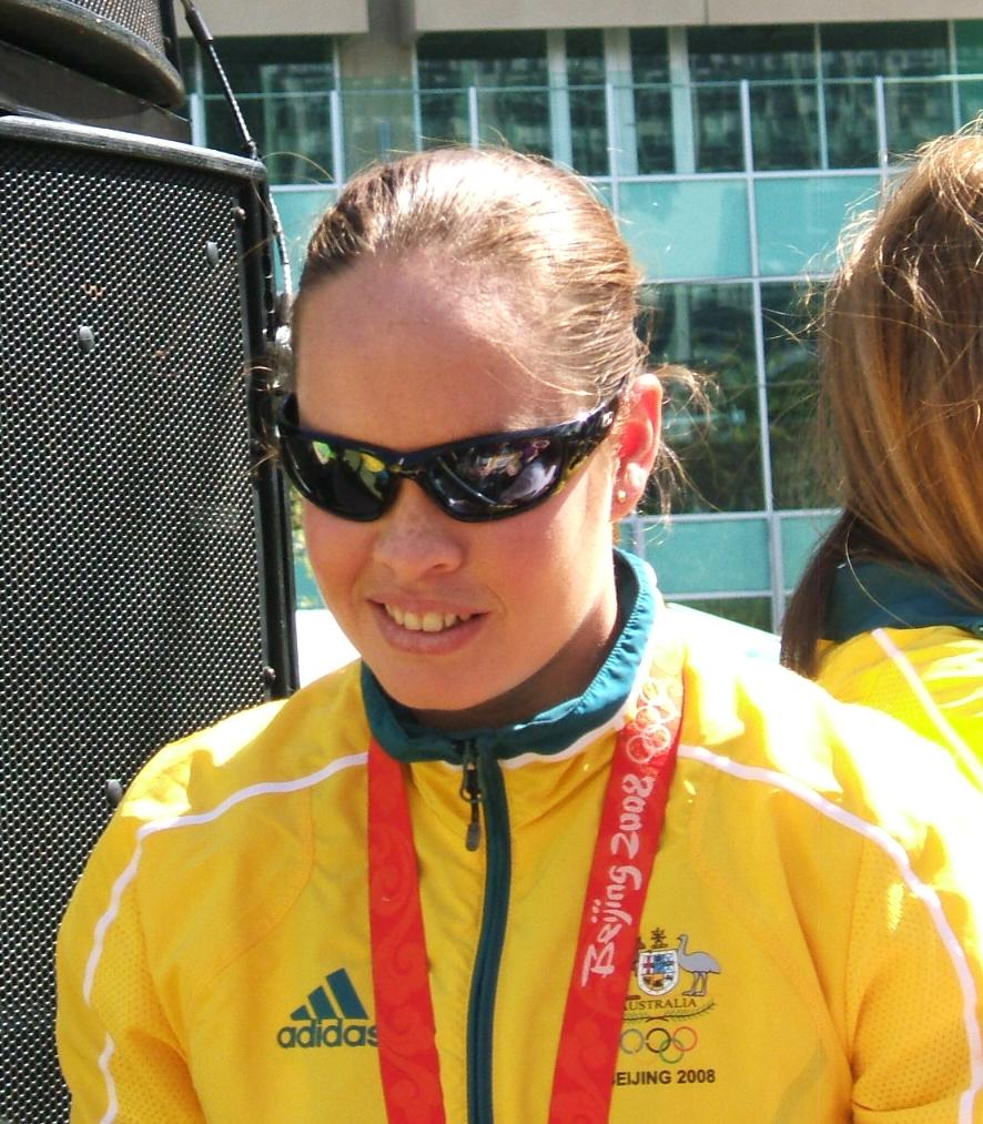 Linda Mackenzie at the 2008 Olympic homecoming parade in Adelaide